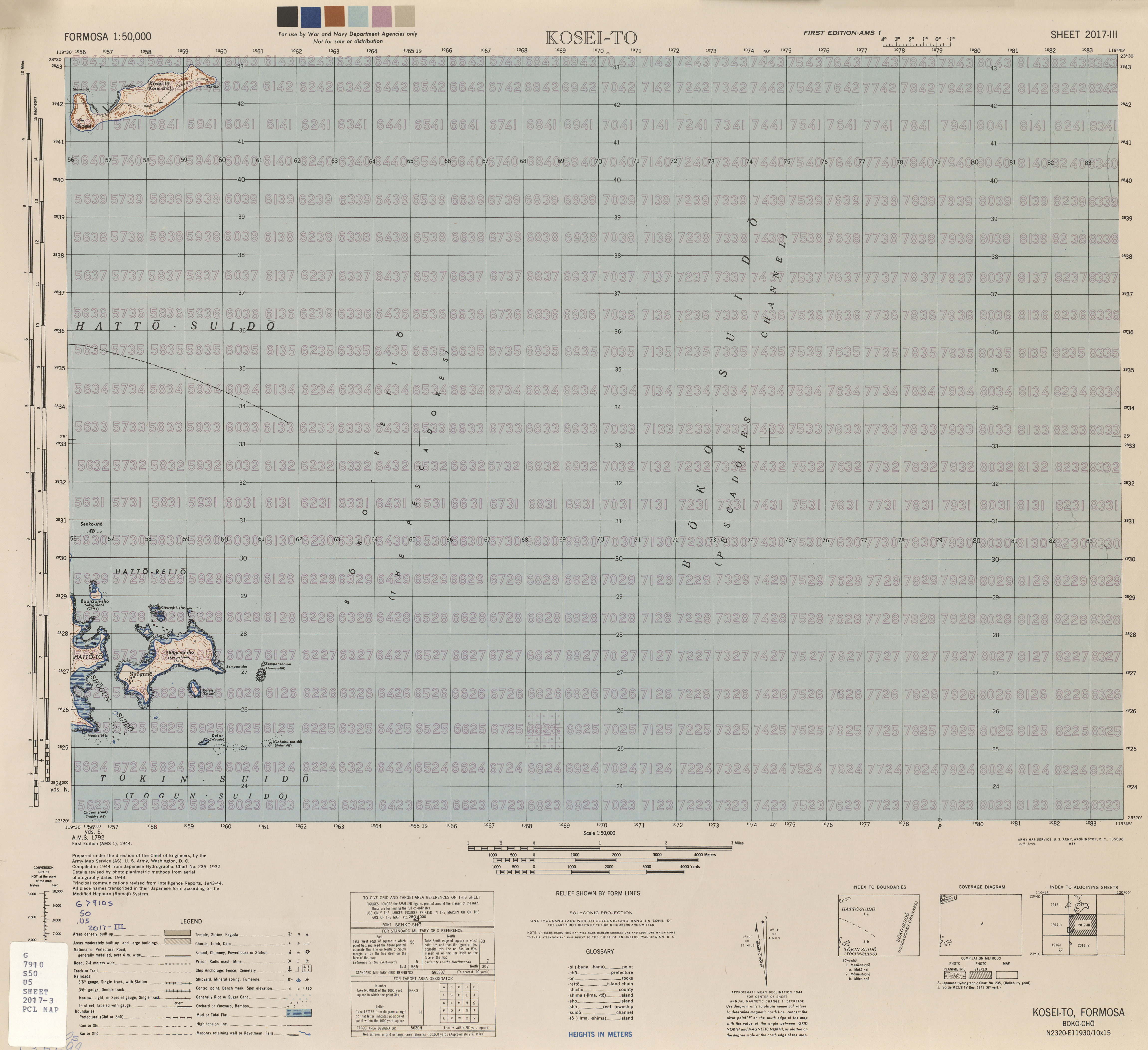 Map of Hujing Island (Kosei-tō) area, Magong, Penghu, Taiwan from Series L792